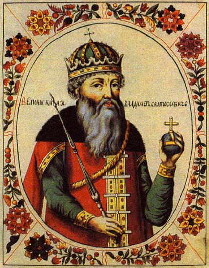 fictional portrait of Vladimir I of Kiev (980–1015)